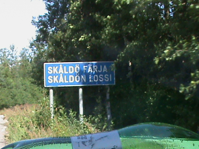 Skåldö cable ferry on connecting road 1002 in Raseborg, Finland.